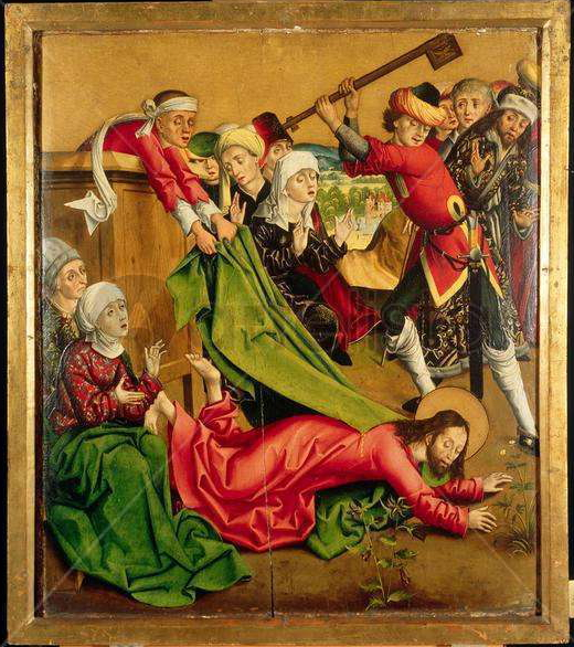 Martyrdom of the Apostle Saint James the Less Museum of Fine Arts Budapest (Szepmueveszeti Muzeum)